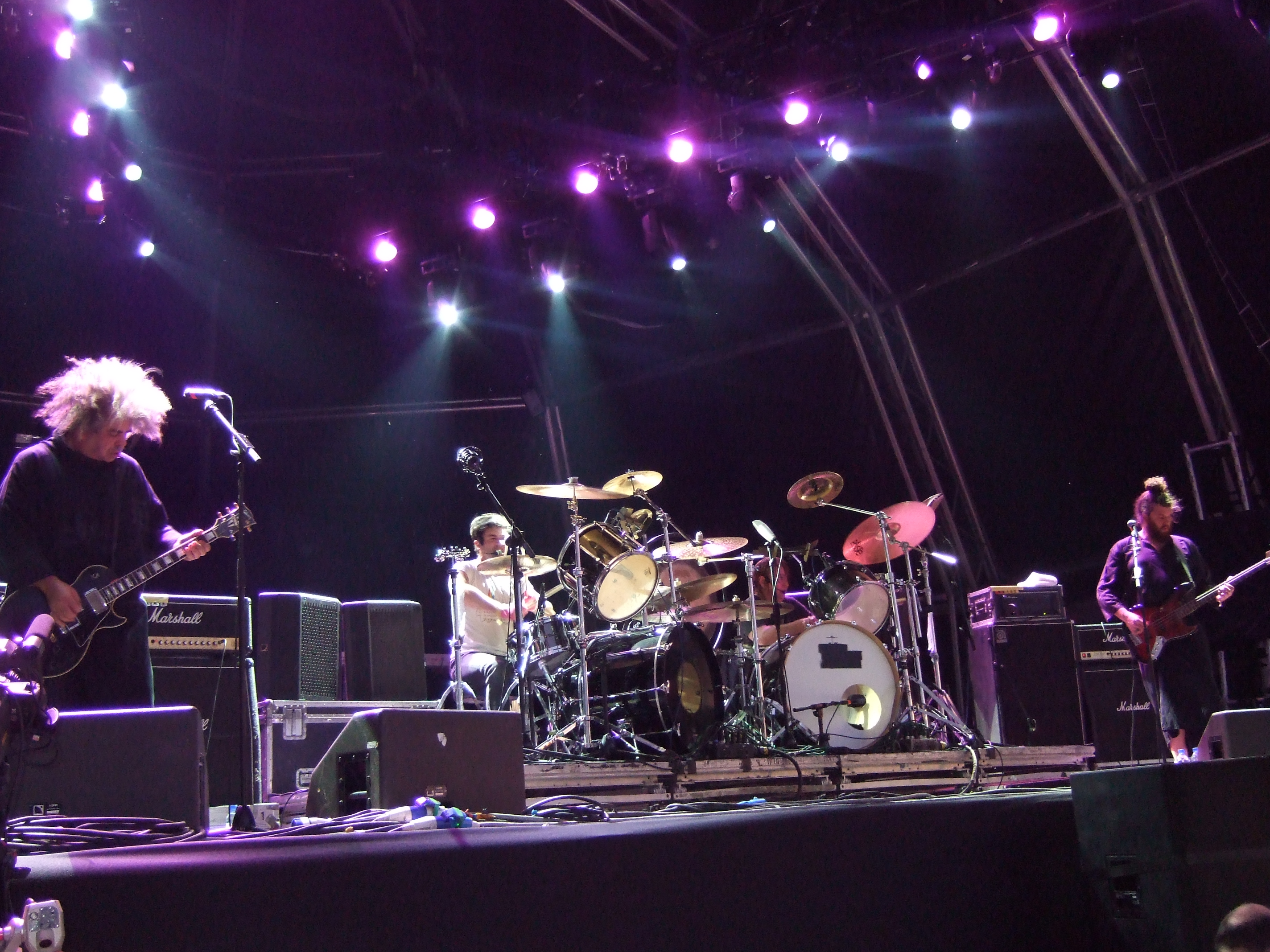 (The) Melvins playing at the Primavera Sound 2007.